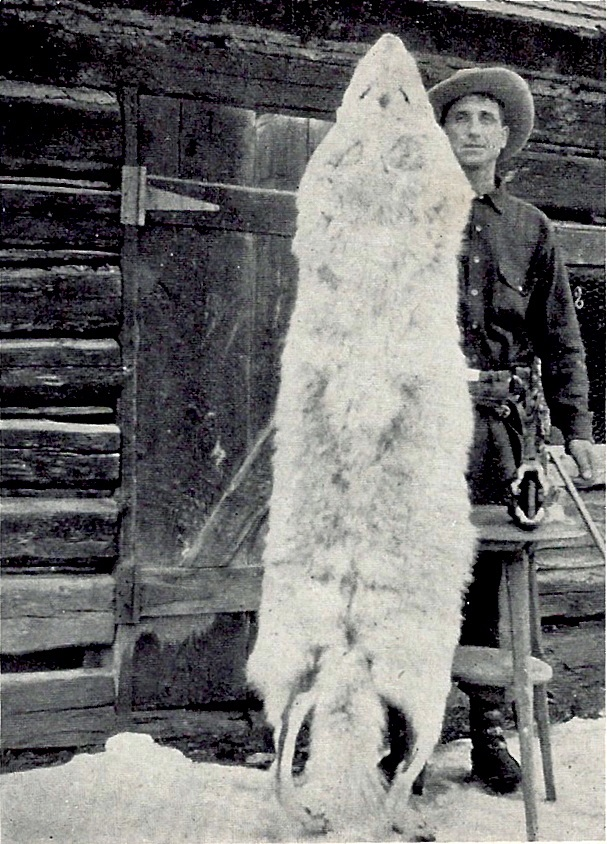 100 pound wolf killed in Montana in 1928 in Highwood Mountains, east of Great Falls, Montana